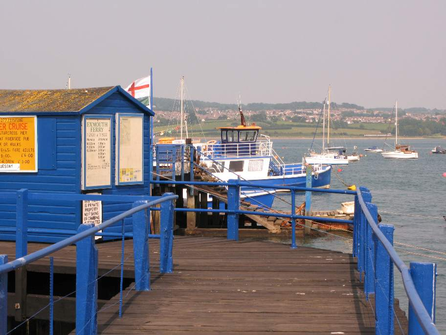 Starcross Pier, Starcorss, Devon, England, showing Starcross to Exmouth ferry across the River Exe.